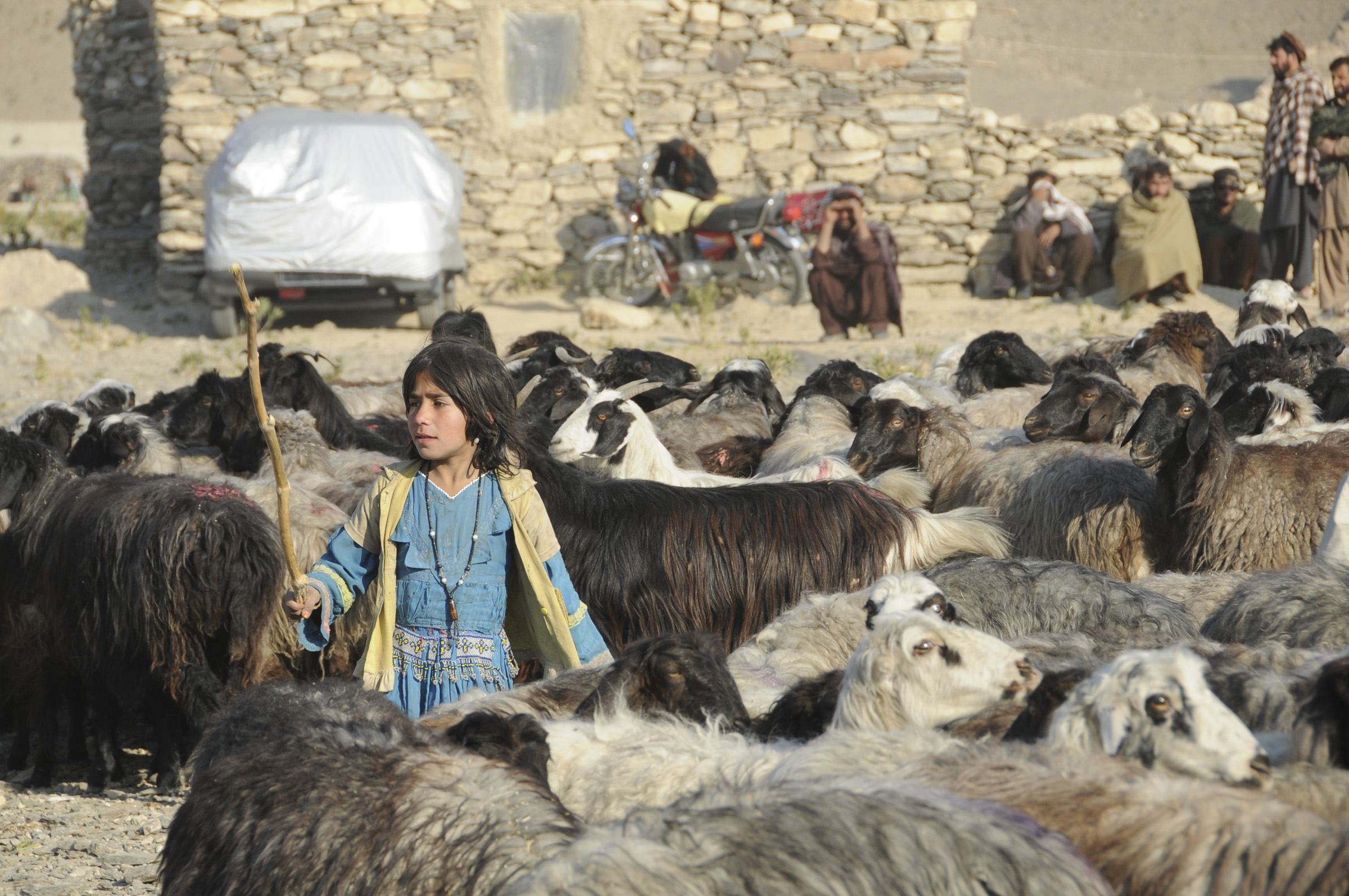 A girl from the nomadic Kuchi tribe herds sheep to be de-wormed and vaccinated at a Veterinary Outreach Sustainment Program in the Noor Gal District of Afghanistan's Kunar Province Jan. 8. An Afghan team, directed by the Kunar Provincial veterinarian, is conducting a series of six VOSPs Jan. 4-12 for the Kuchi tribes in Kunar. During the first two VOSPs for the Kuchis, Ghalib's team treated 3,550 animals, mostly sheep. Combined Joint Task Force 101 Photo by Capt. Peter Shinn Date Taken:01.08.2011Date Location:NOOR GAL, AF Related photos